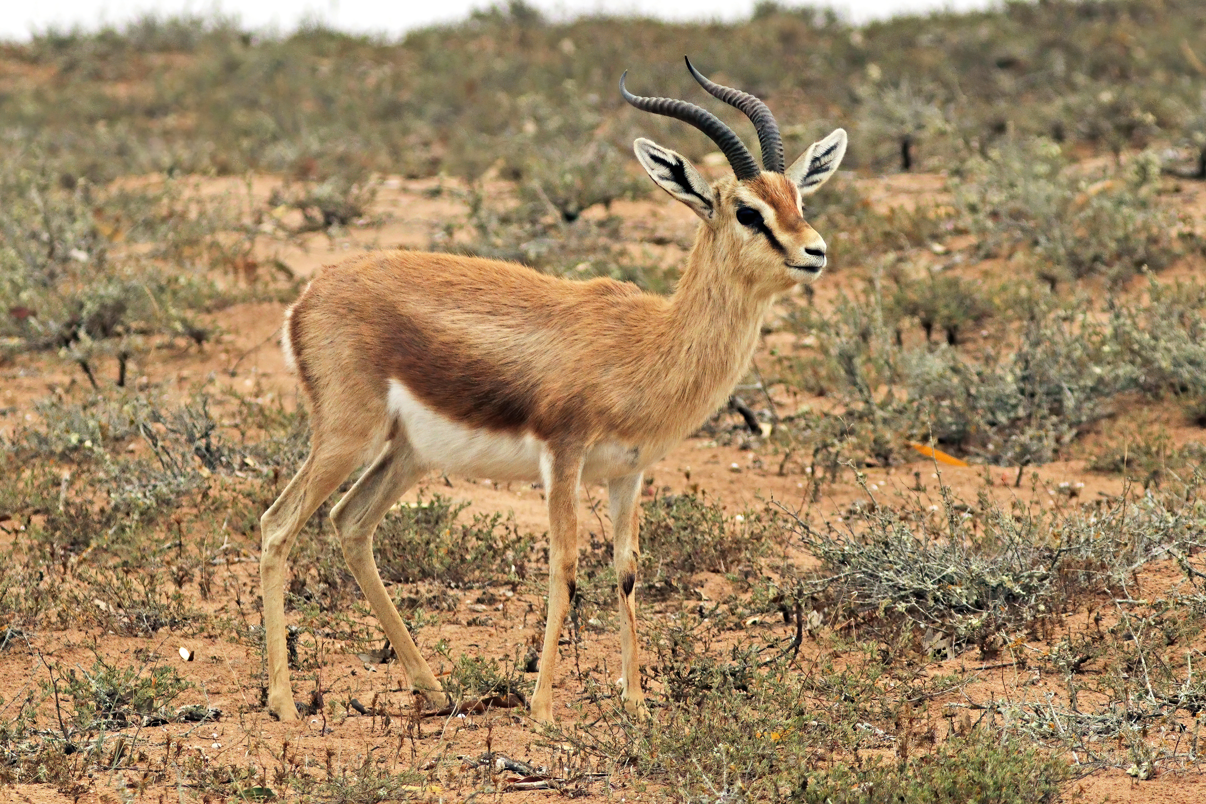 Maroccan dorcas gazelle (Gazella dorcas massaesyla), Souss-Massa National Park, Morocco